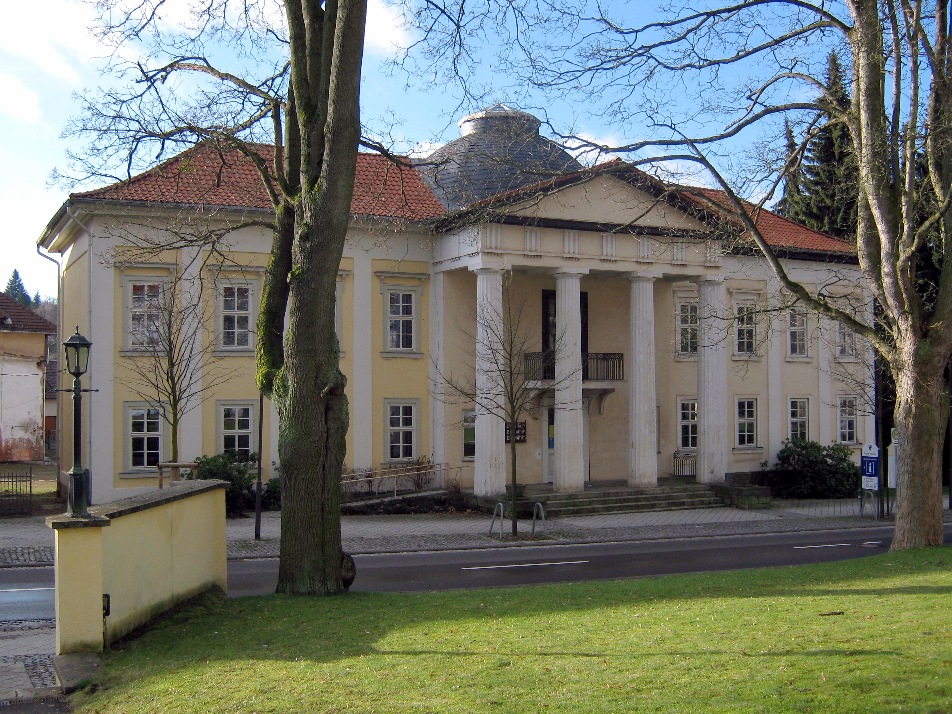 Weimar Palace (former royal house was built around 1805) in Bad Liebenstein